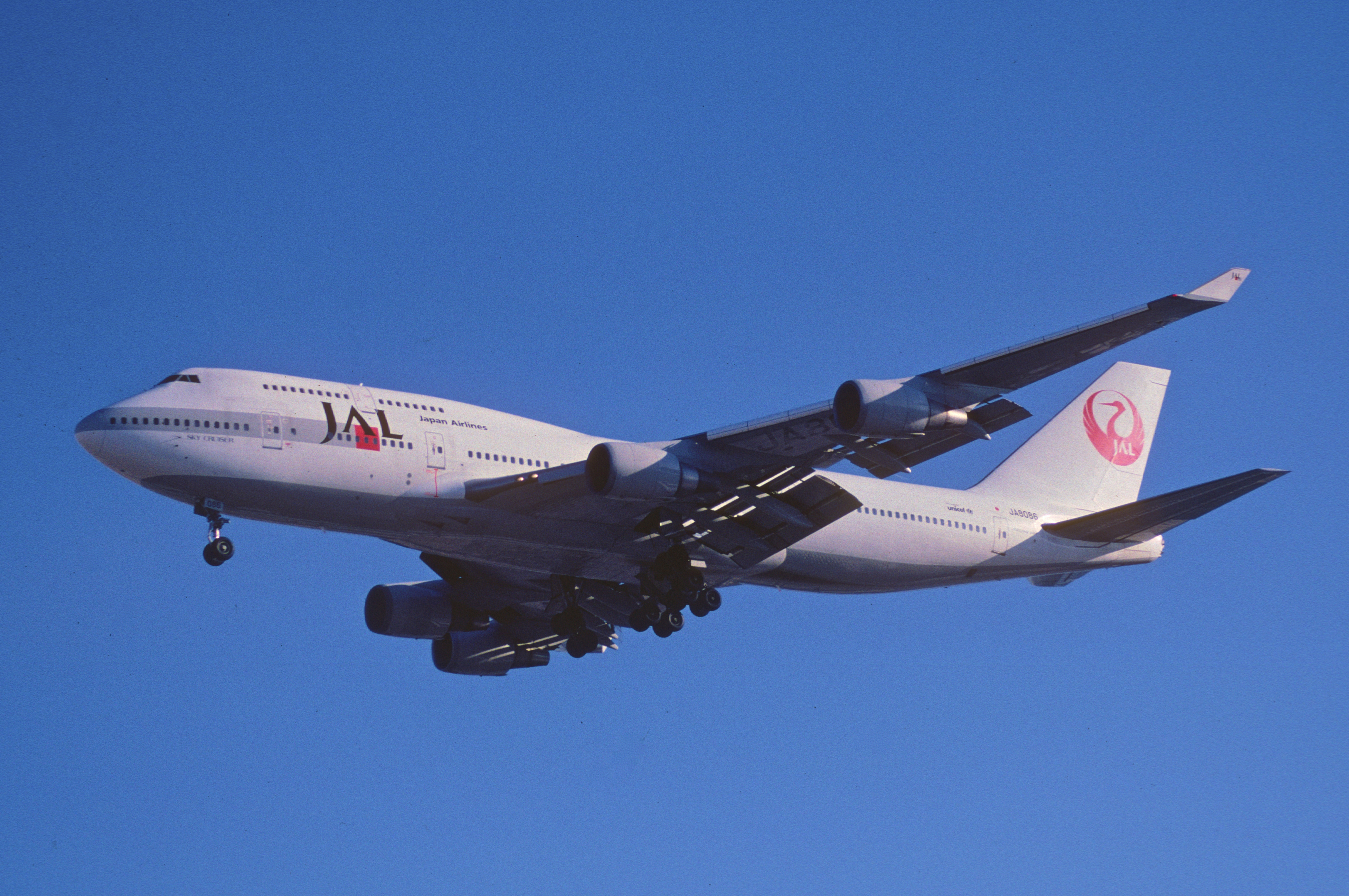 340aq - JAL Japan Airlines Boeing 747-446; JA8086@LAS;01.03.2005